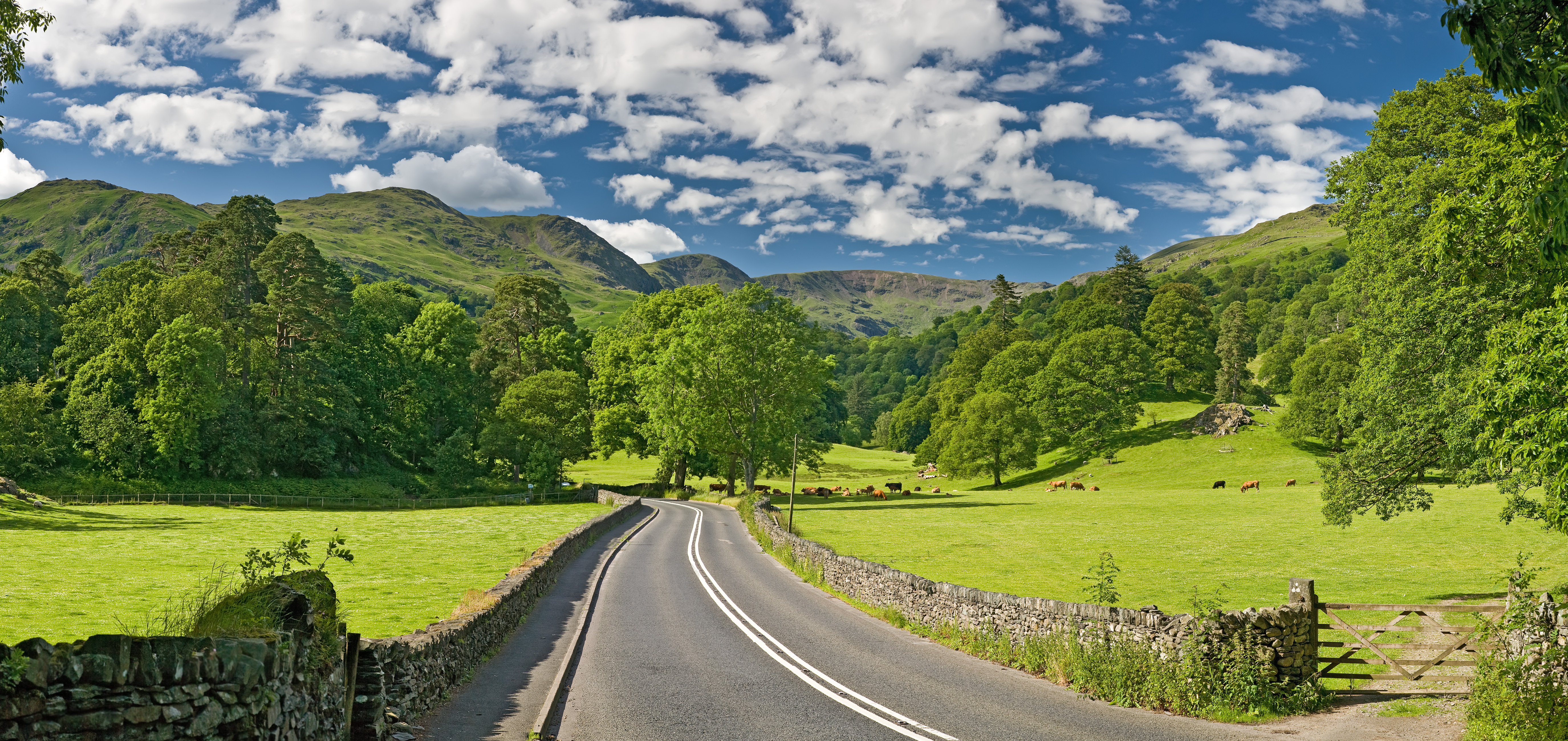 The A591 road as it passes through the countryside between Ambleside and Grasmere in the Lake District, England.